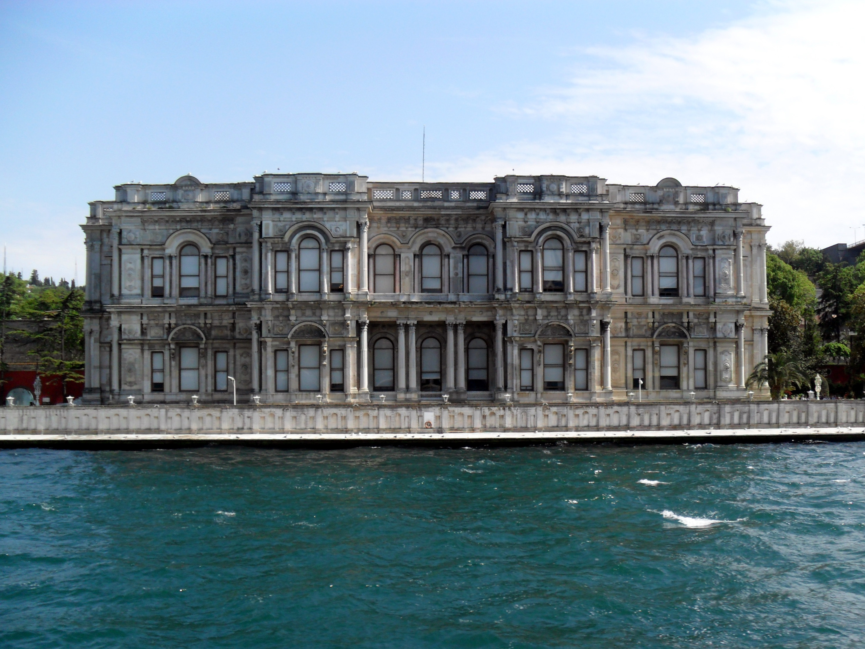 Beylerbeyi Palace was the summer palace of the Ottoman Sultans.